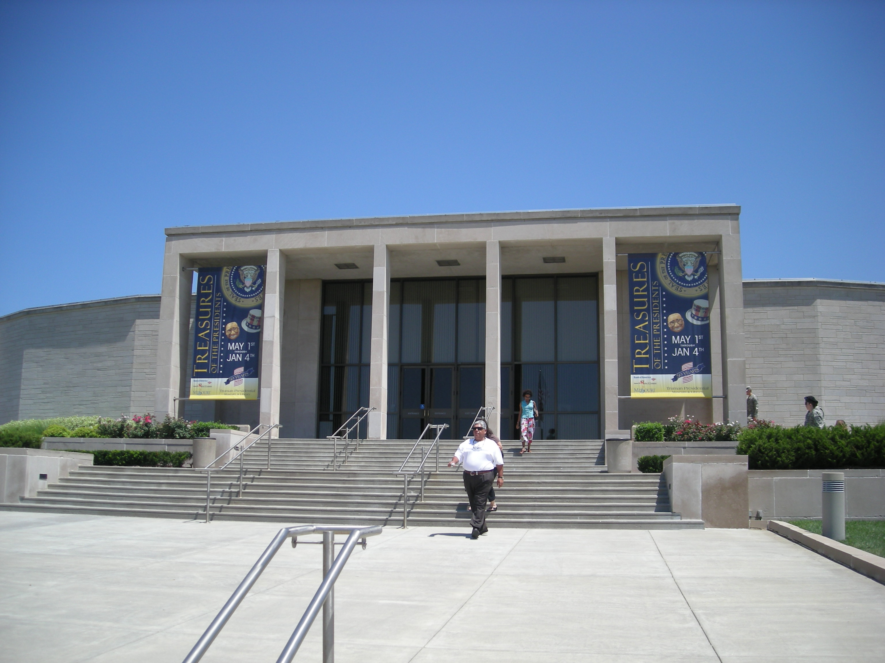 The exterior of the Harry S. Truman Presidential Library and Museum in Independence, Missouri (United States).